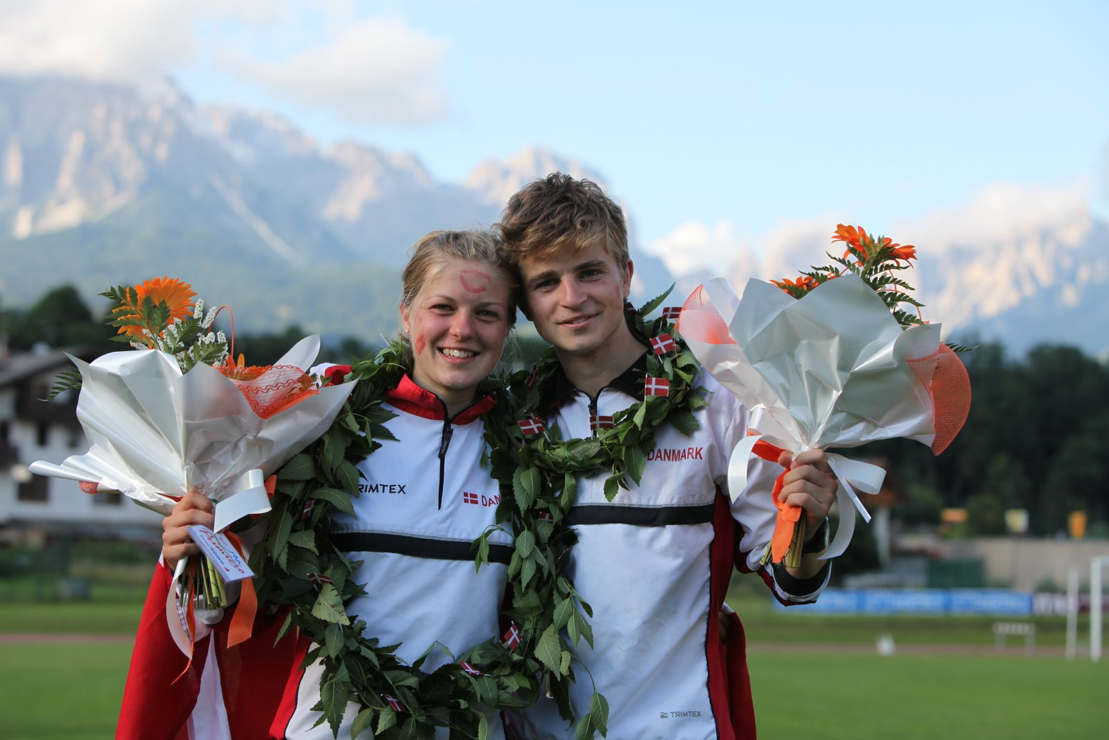 Ida Bobach and Sören Bobach at JWOC 2009